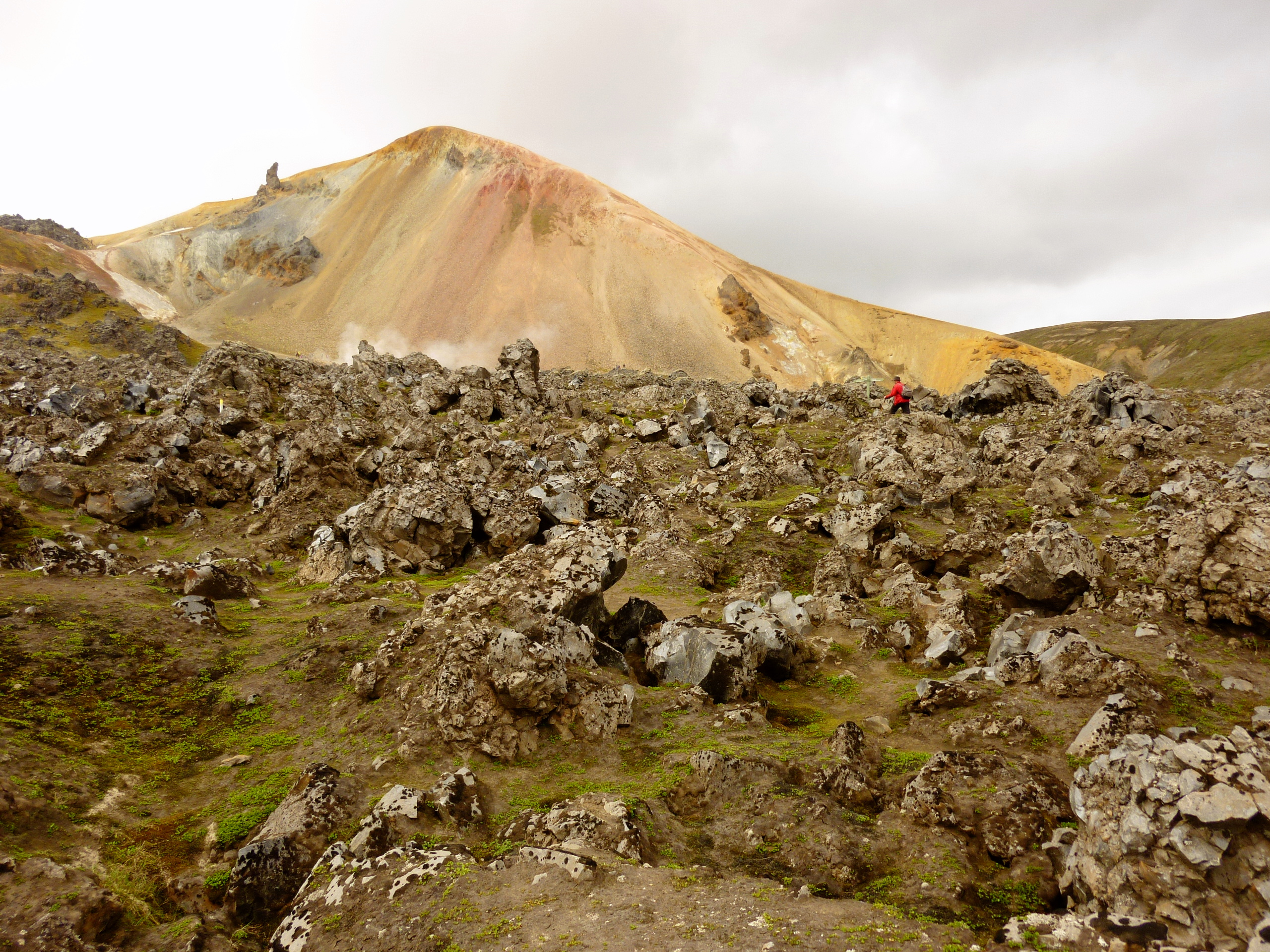 Eastern side of the Brennisteinsalda volcano, with Laugahraun lava flow in the foreground.